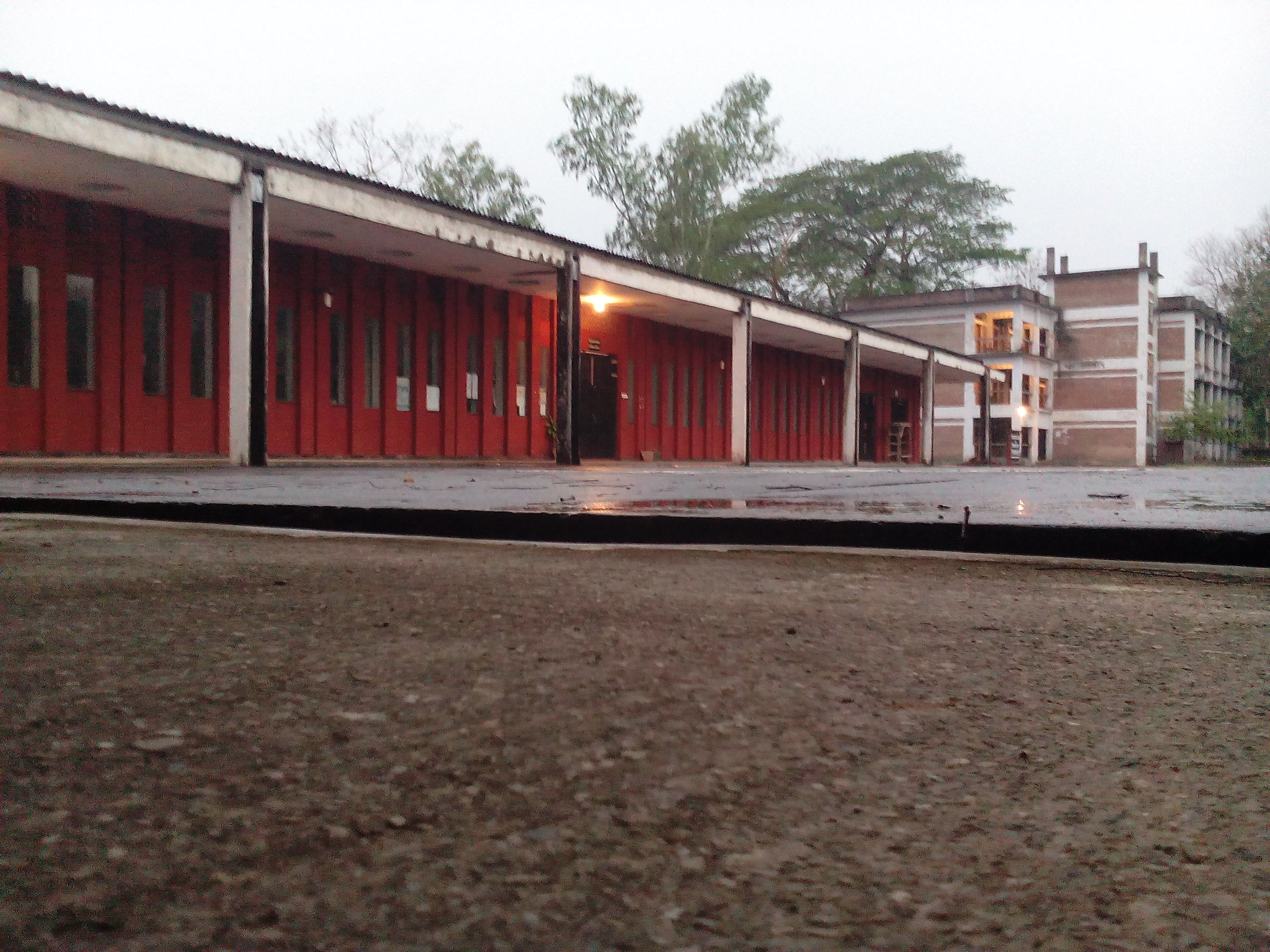 Civil Wood Department Of Bangladesh Sweden Polytechnic Institute,Kaptai